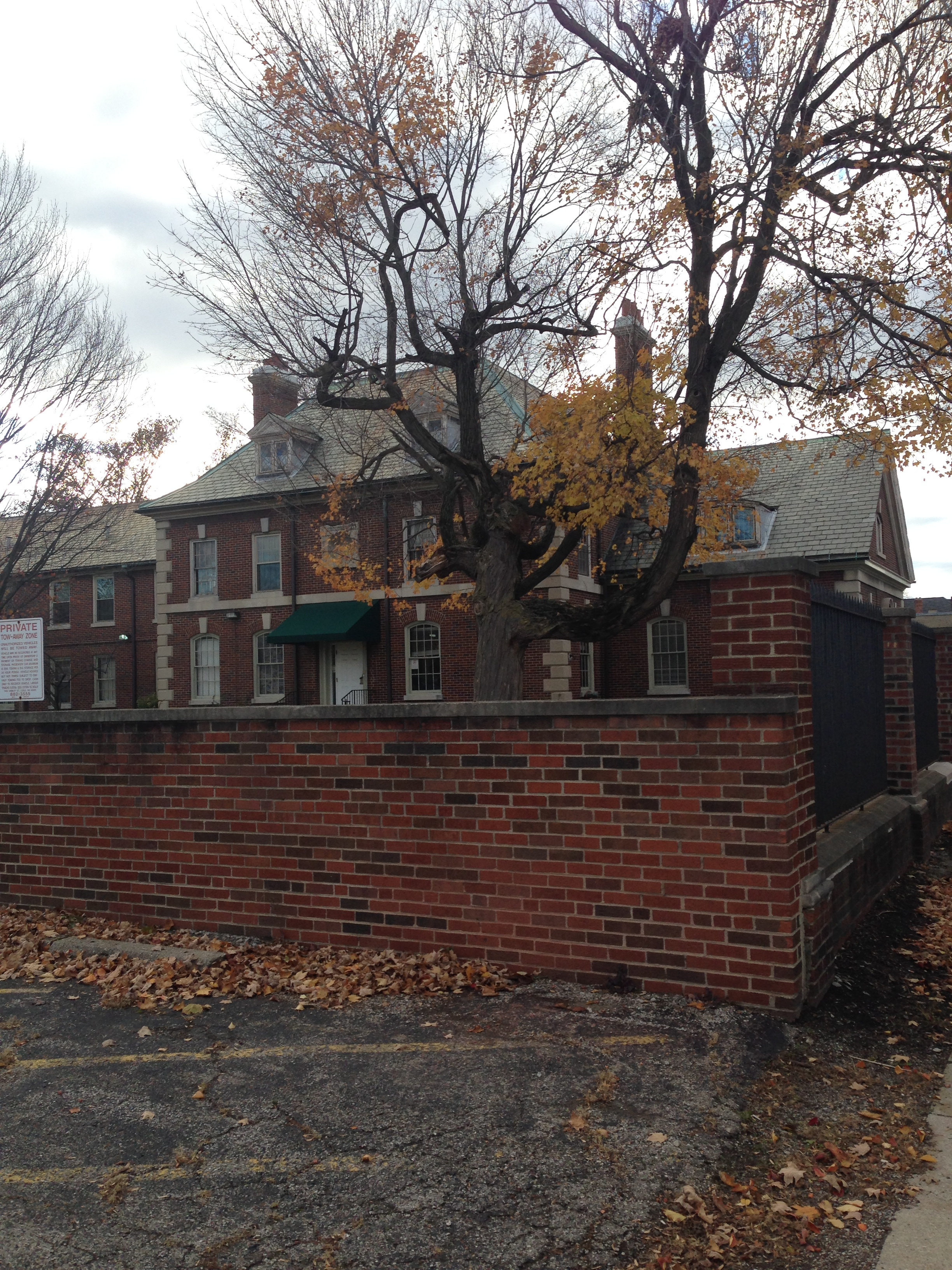 House for aged people.